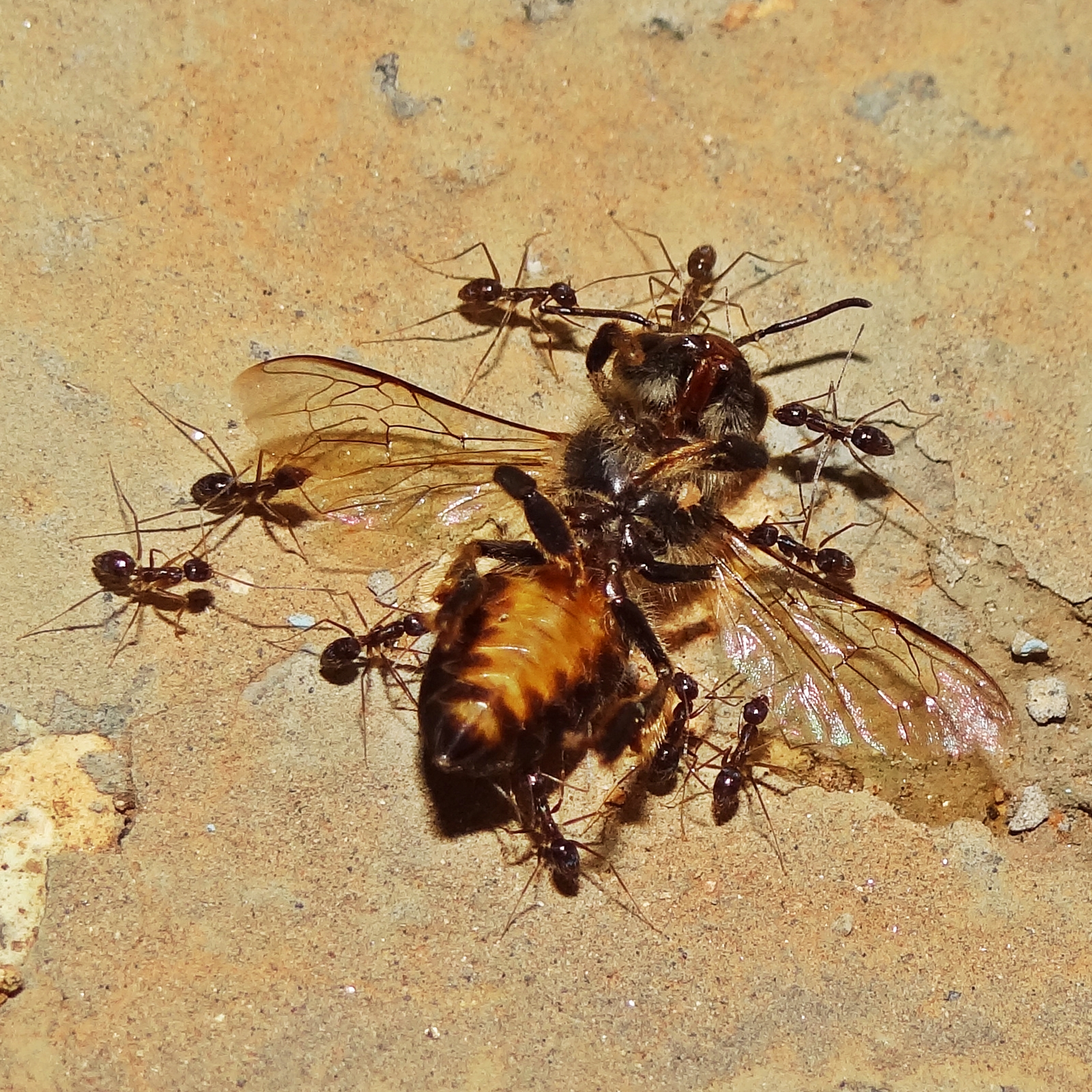 An insect much much larger than the ant being carried by very few ants.